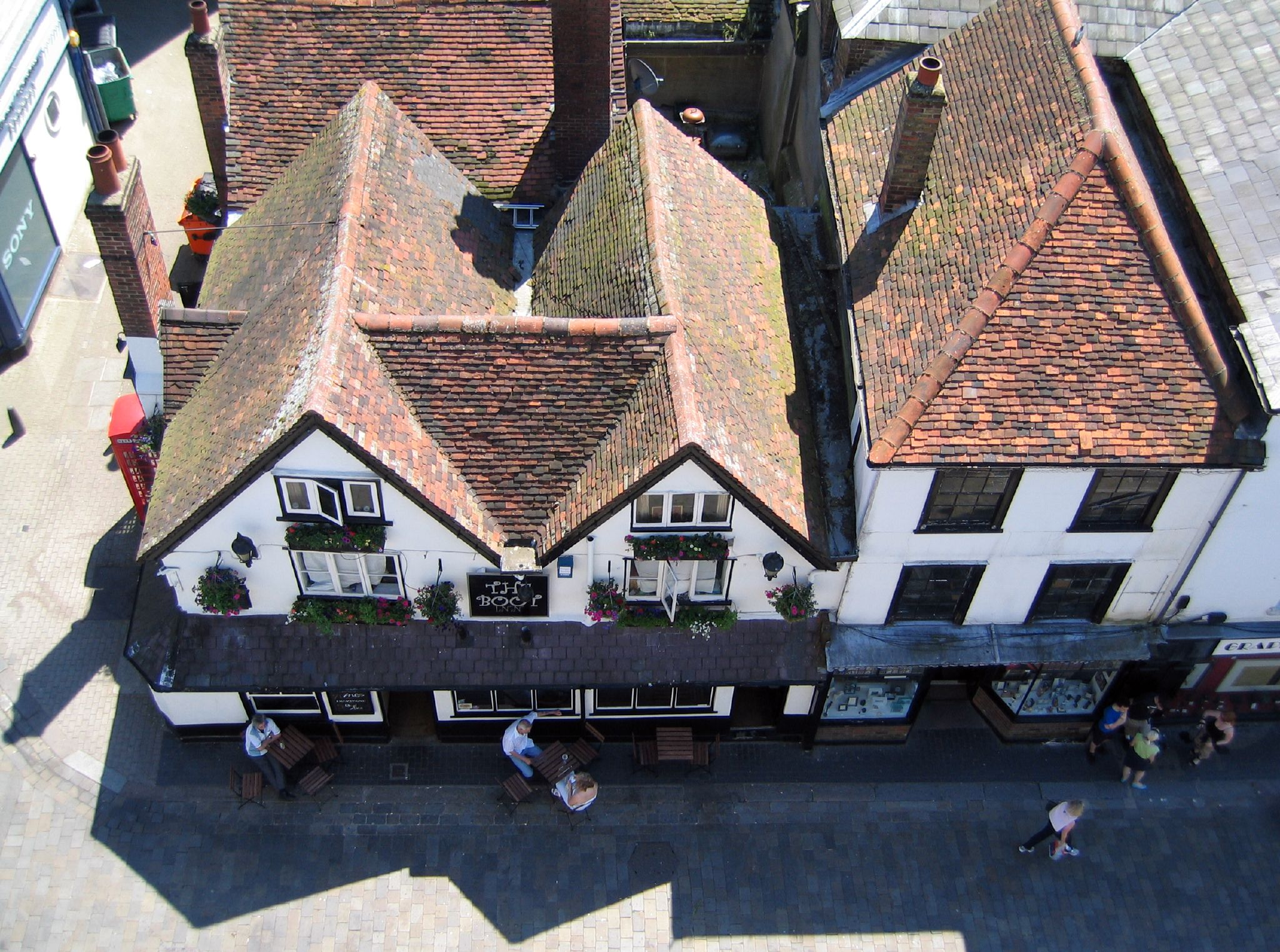 View of The Boot from St Albans Clock Tower.